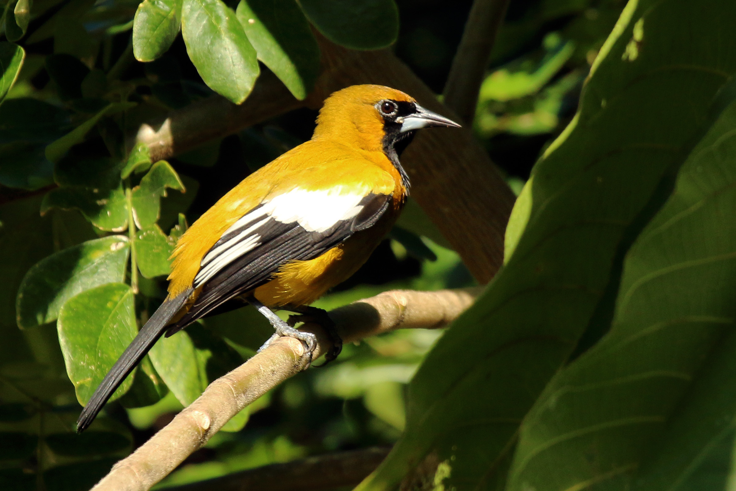 Jamaican oriole (Icterus leucopteryx leucopteryx), Green Castle Estate Jamaica